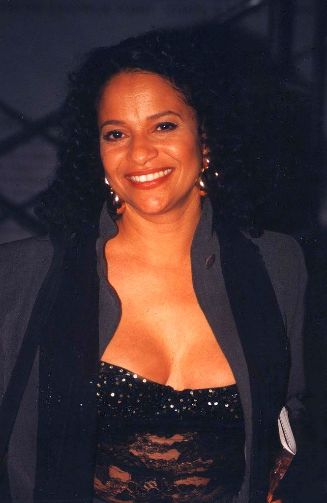 Wash D.C. Kennedy center